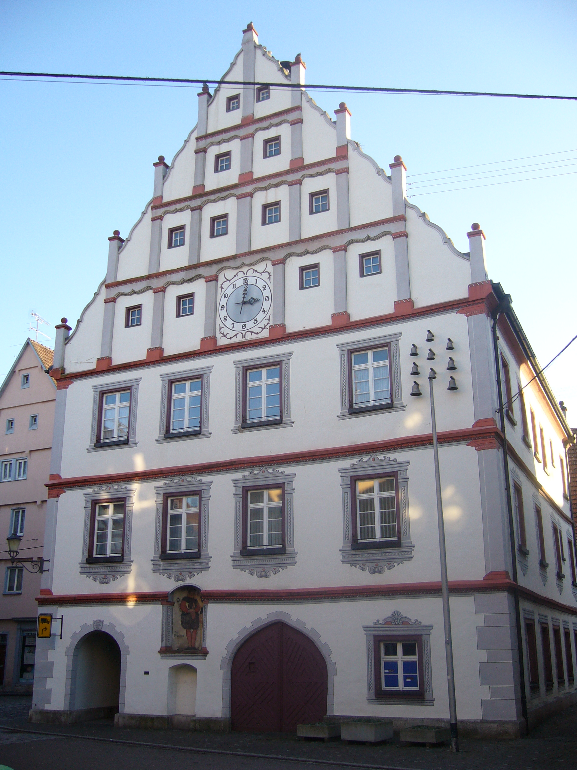 town hall of Munderkingen, Germany